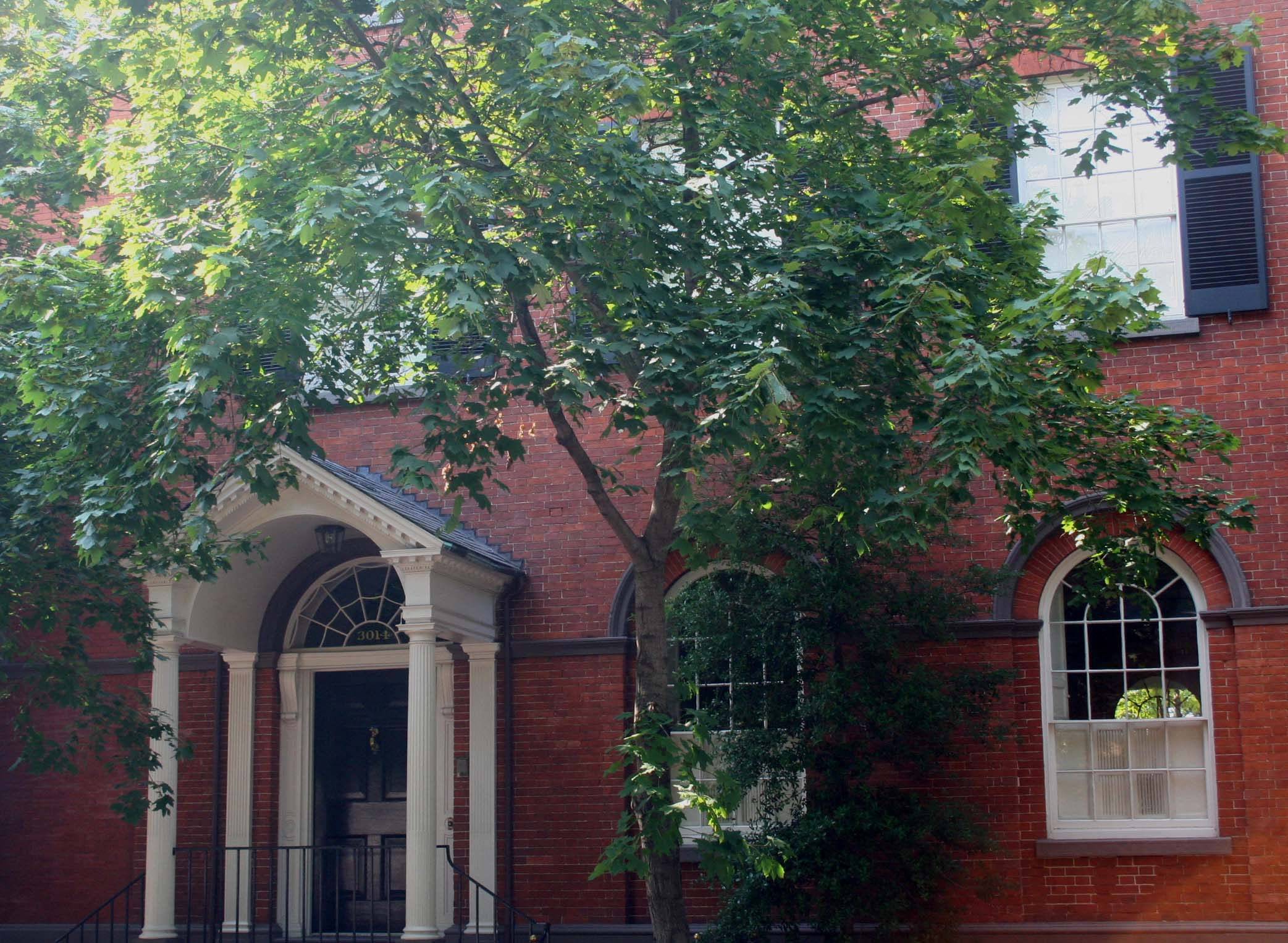 Former home of Robert Todd Lincoln (Son of Abrahm Lincoln, Chairman of Pullman Railroad Co.) and Ben Bradlee (Newspaper Executive "Washington Post"). Note: Robert Todd Lincoln, son of former President Lincoln, lived in this house from 1918 until his death in 1926. Location: 3014 N Street NW, Washington, D.C.